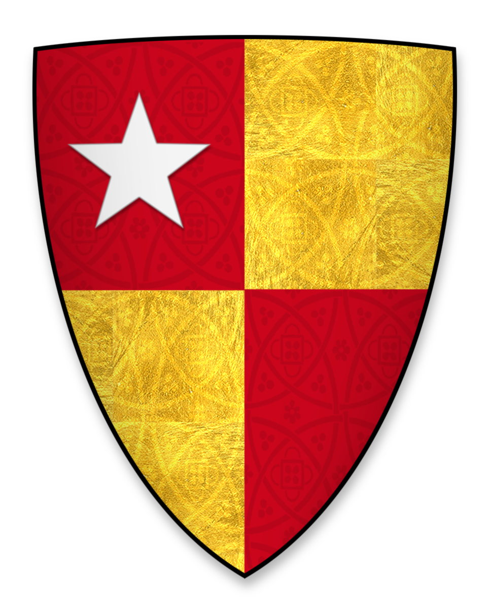 Coat of arms of the earls of Oxford (de Vere family). Note that this is the modern coat of arms, the Camden Roll (c. 1280) gives the arms of the counts of Oxford with inverted tinctures, i.e. 1st and 4th quarters or, 2nd and 3rd quarters gules, but Matthew Paris (c. 1250) depicts it as shown here.